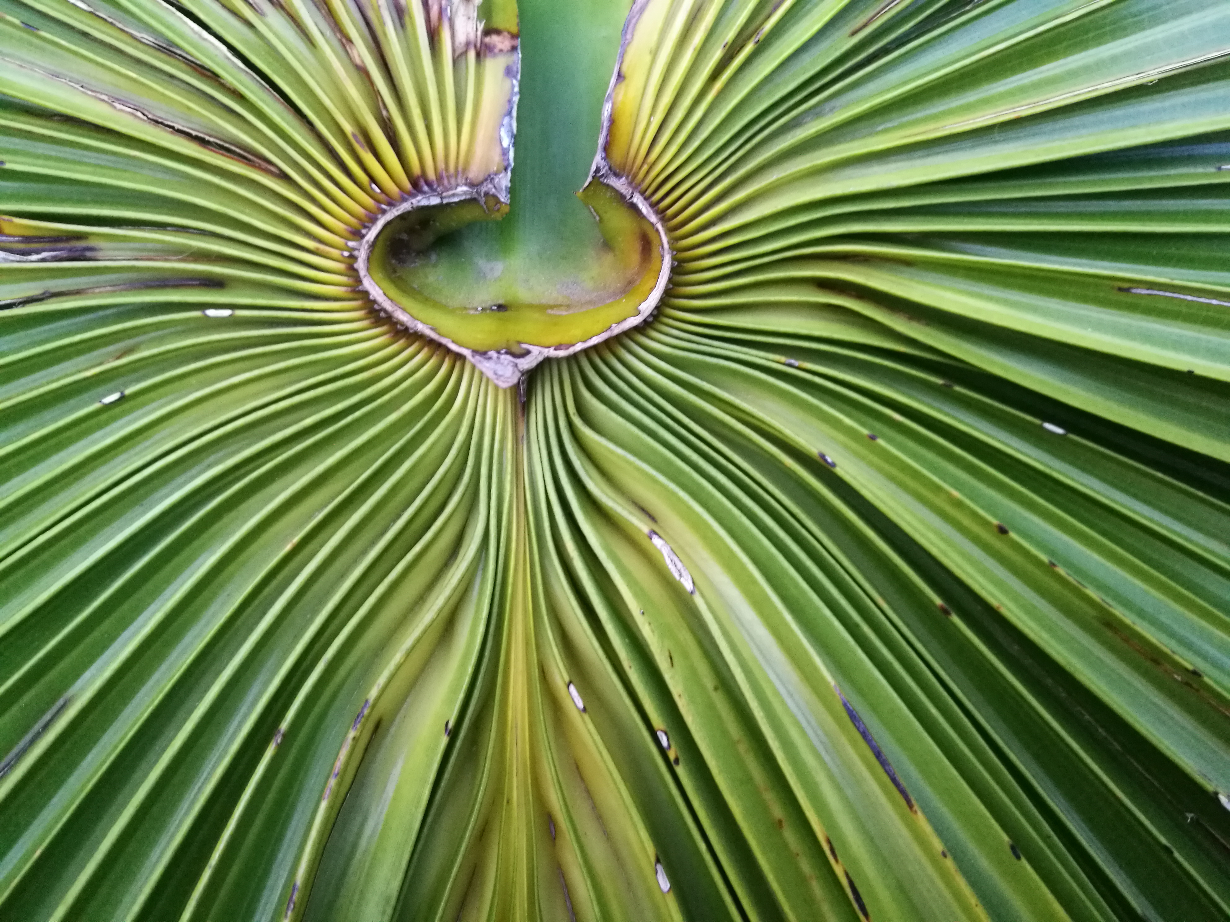 Livistona australis. Leaf detail. Palm Beach, Sydney